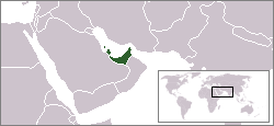 Map of the Federation of Arab Emirates, a former planned federation between Bahrain, Qatar and the Trucial States in 1968.